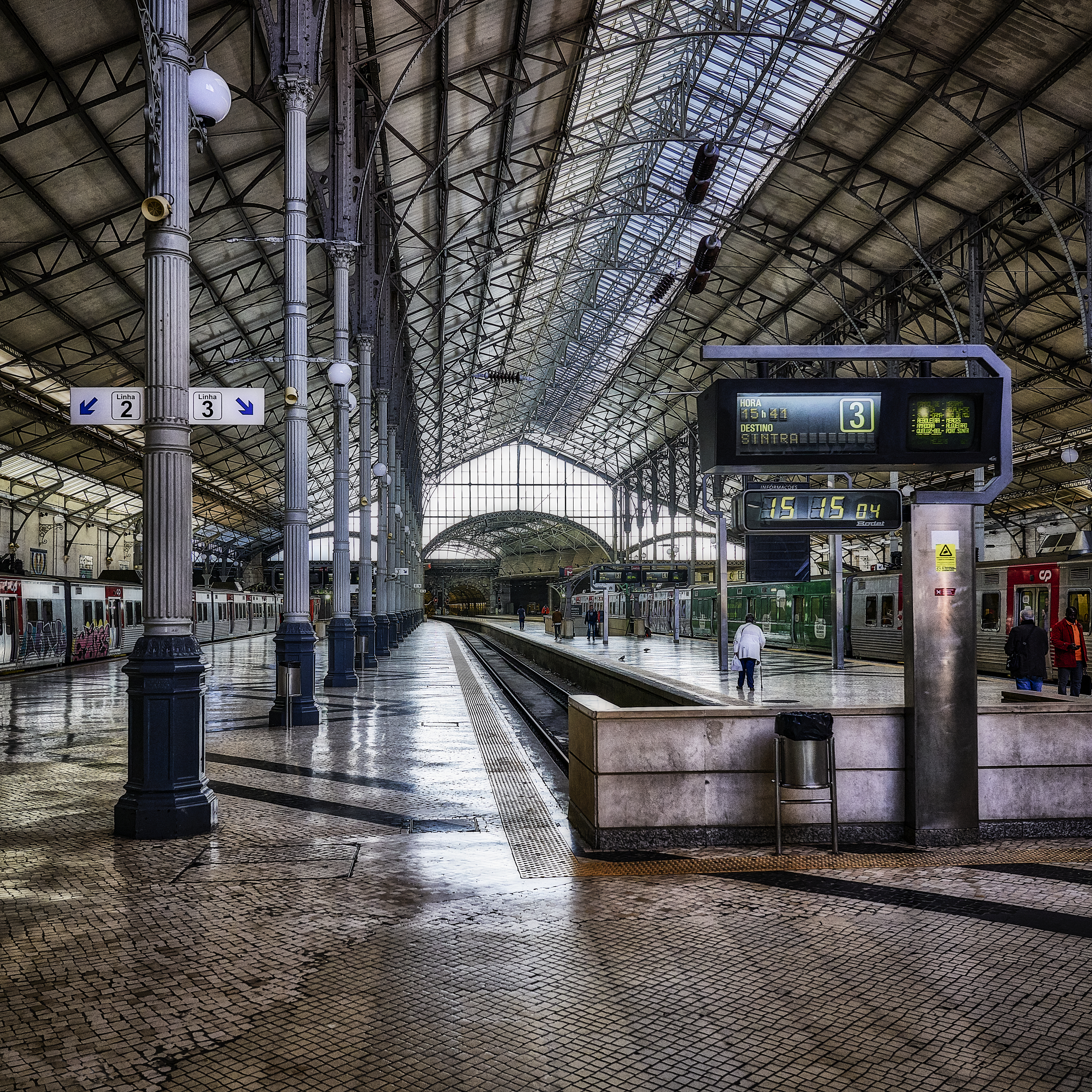 Rossio train station platform, Lisbon Portugal